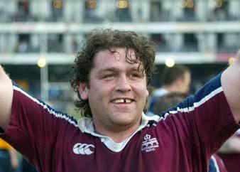 Simon Bunting - Rotherham Rugby player